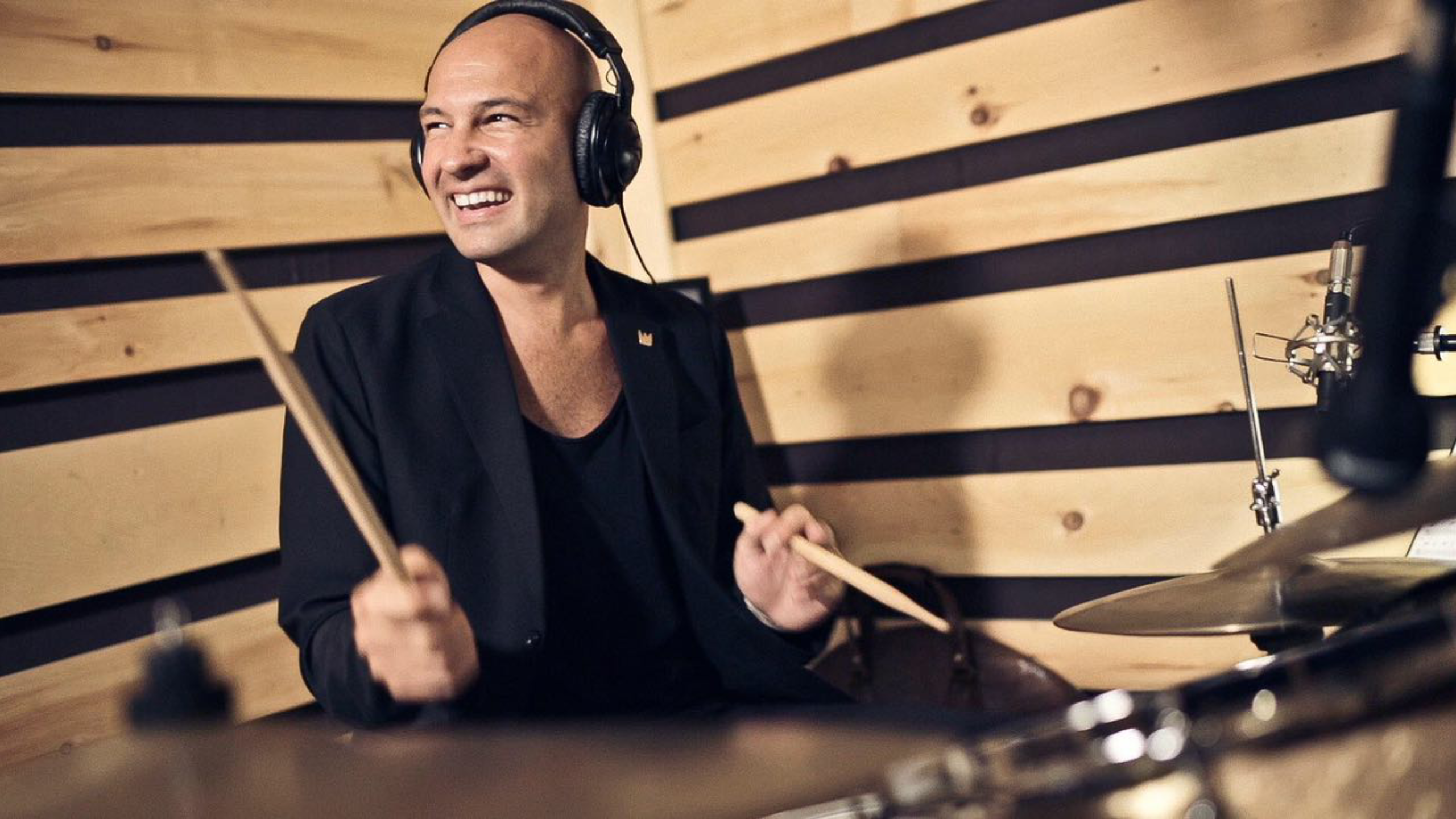 taken during the sessions of the album "Dameronia With Strings"